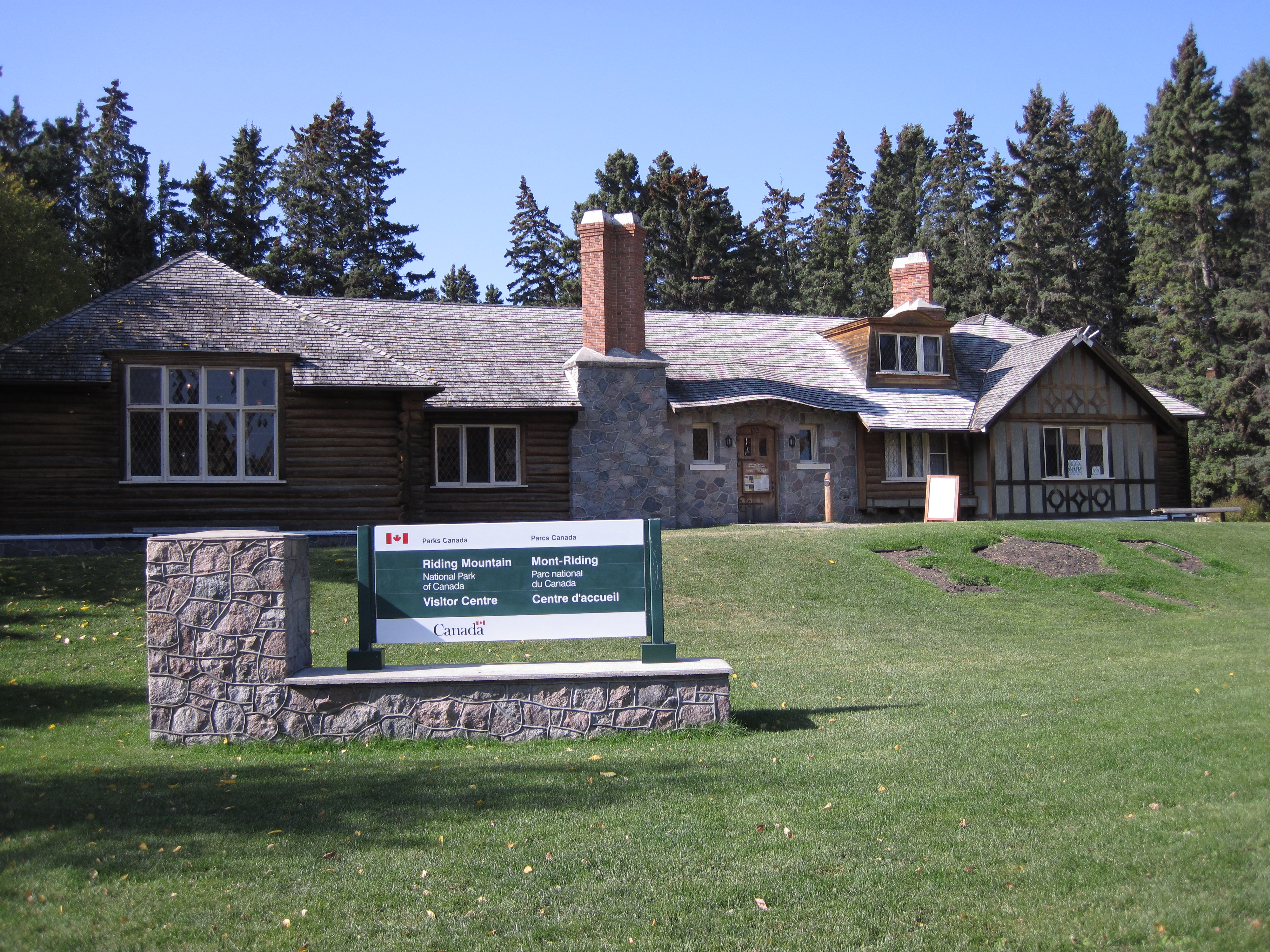 The Interpretive Centre, also known as Building B1 or the Visitors' Centre, is a one-and-a-half storey building, set in a formal landscaped setting in Wasagaming, Manitoba, inside Riding Mountain National Park of Canada. Constructed of log and stone in the Rustic style, this building features a hip roof clad with wooden shingles. Tudor inspired details include the false half-timbering of the gables, the leaded casement windows, and the stone and brick chimneys. The Interpretive Centre is one of the most significant designs produced by the Architectural Division of the National Parks Branch during its period of active involvement in park development.